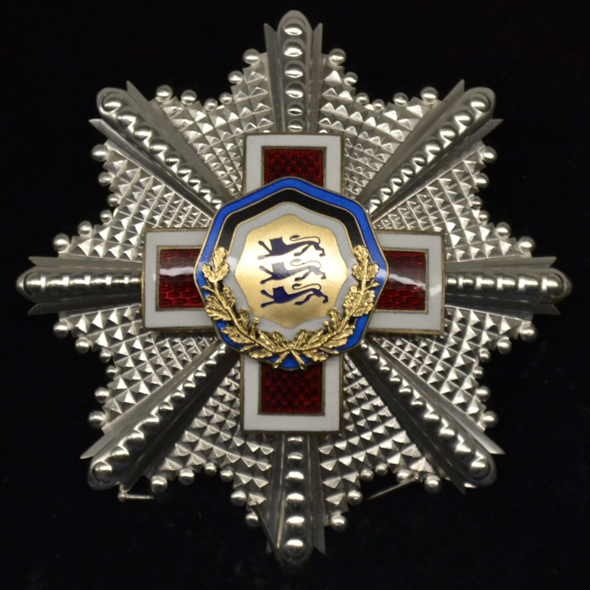 Estonia. Order of the Estonian Red Cross 1st class, breaststar. The exhibition of the Estonian State Decorations at the National Library of Estonia in Tallinn.